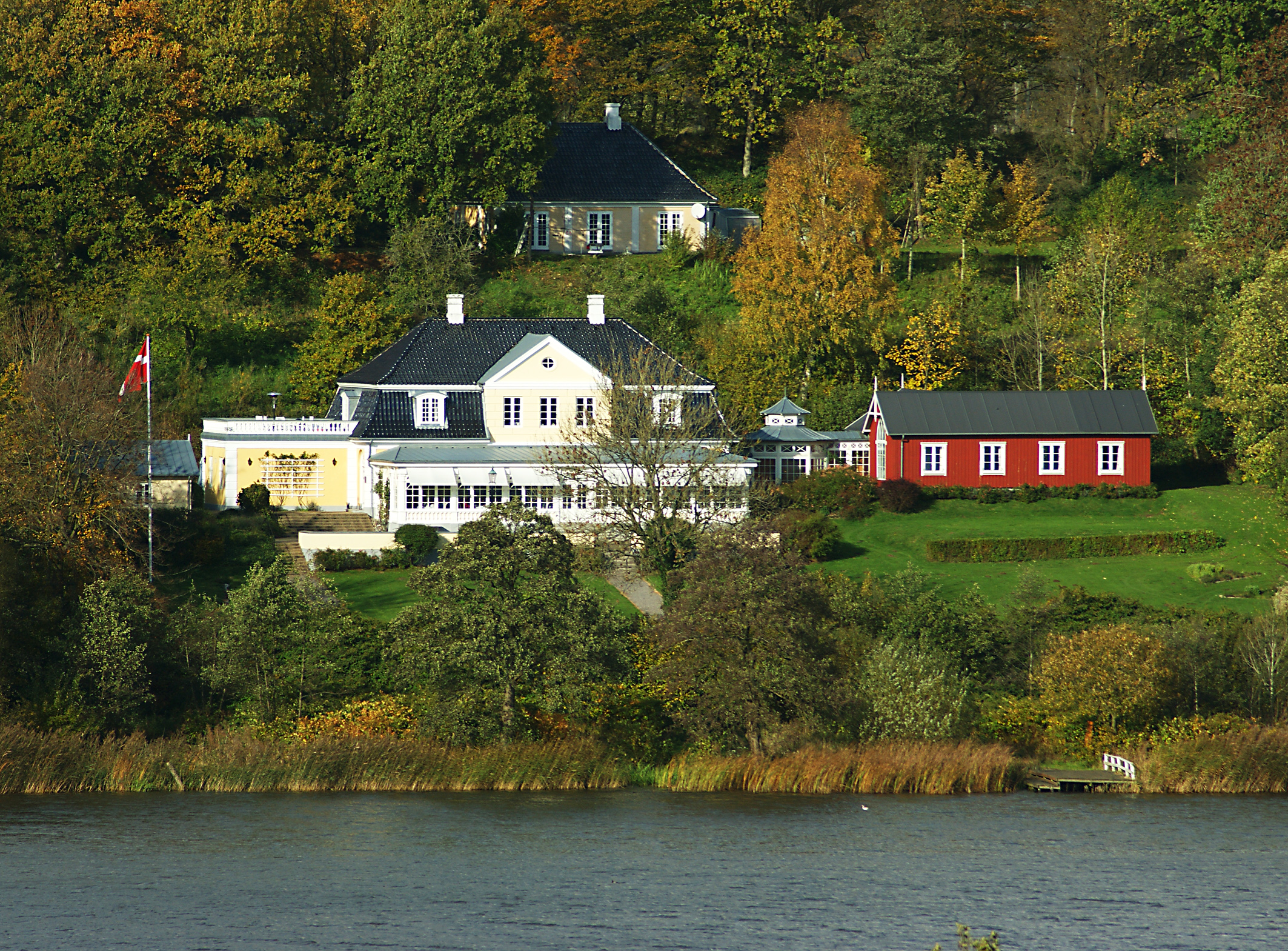 Restaurant Damende, Haderslev, Dk